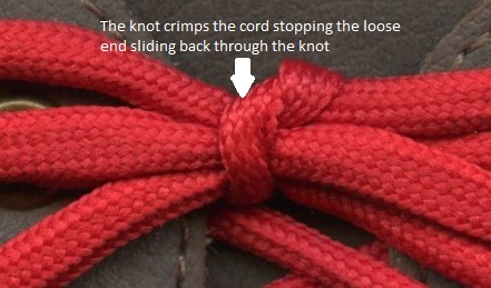 The crimp stops the knot coming loose